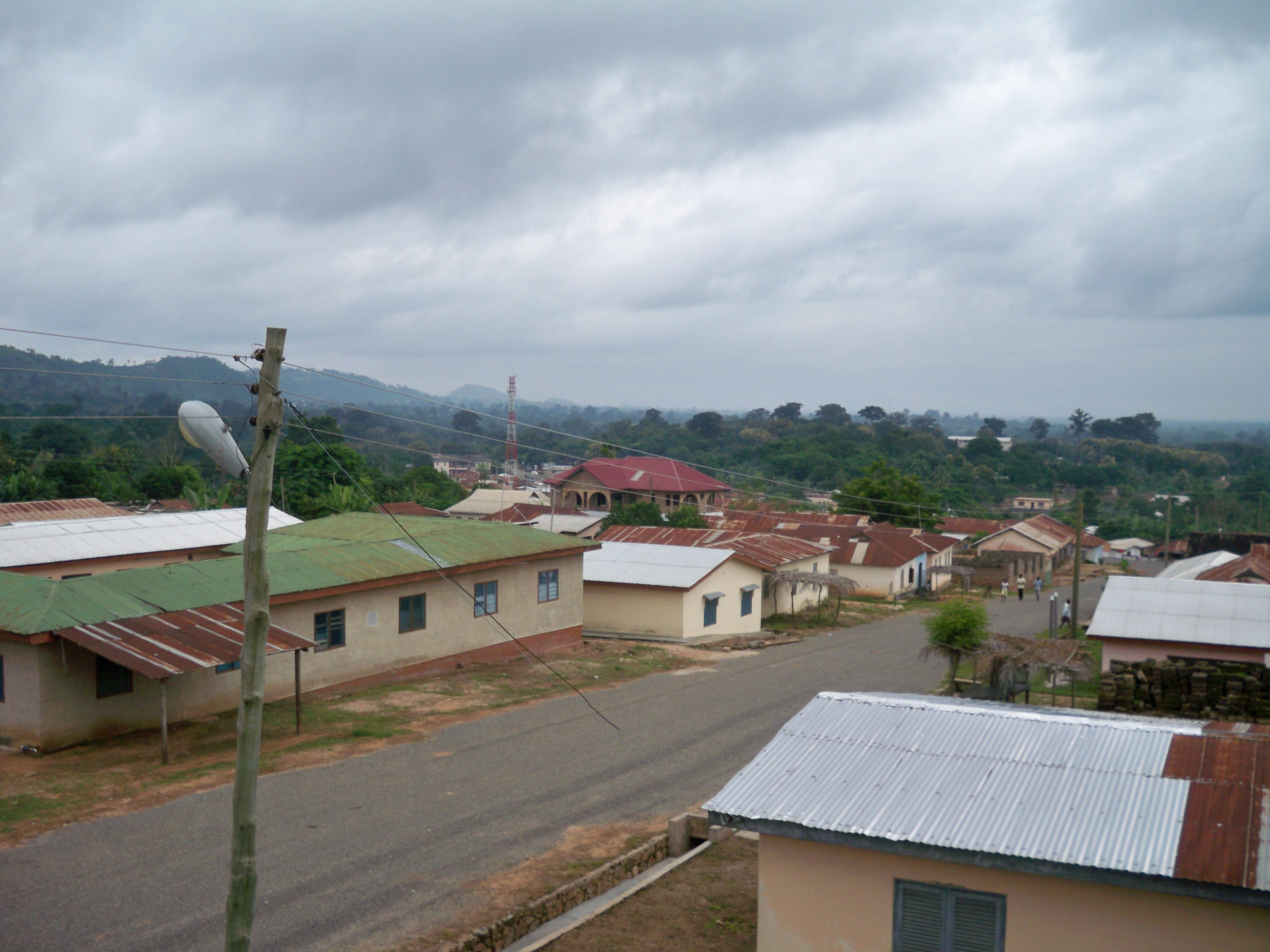 This is a photo of an area of Vakpo visible from the E.P. chapel, which was under construction when this photograph was taken.